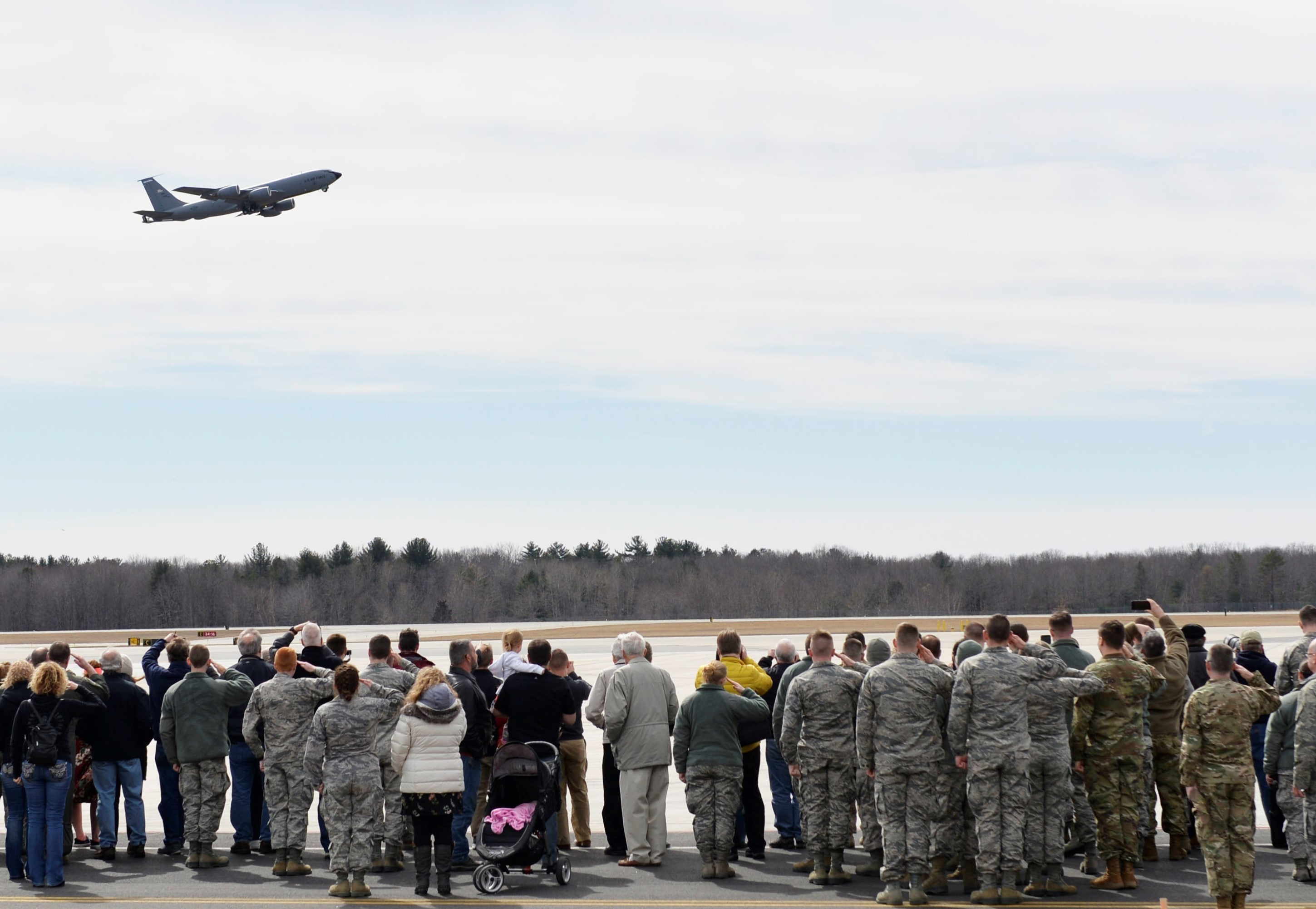 Airmen assigned to the 157th Air Refueling Wing render a salute to the wing’s last KC-135 Stratotanker during a departure ceremony held at Pease Air National Guard Base, N.H., March 24, 2019. The ceremony honored the KC-135’s 44-year legacy of air refueling with the 157th ARW.